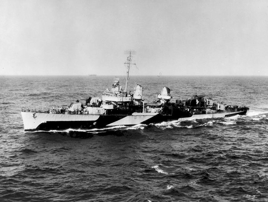 The U.S. Navy destroyer USS Halligan (DD-584) pulling away after delivering mail to the escort carrier USS Sargent Bay (CVE-83) on 1 March 1945, during the Iwo Jima Operation. She is painted in Camouflage Measure 32, Design 1D.